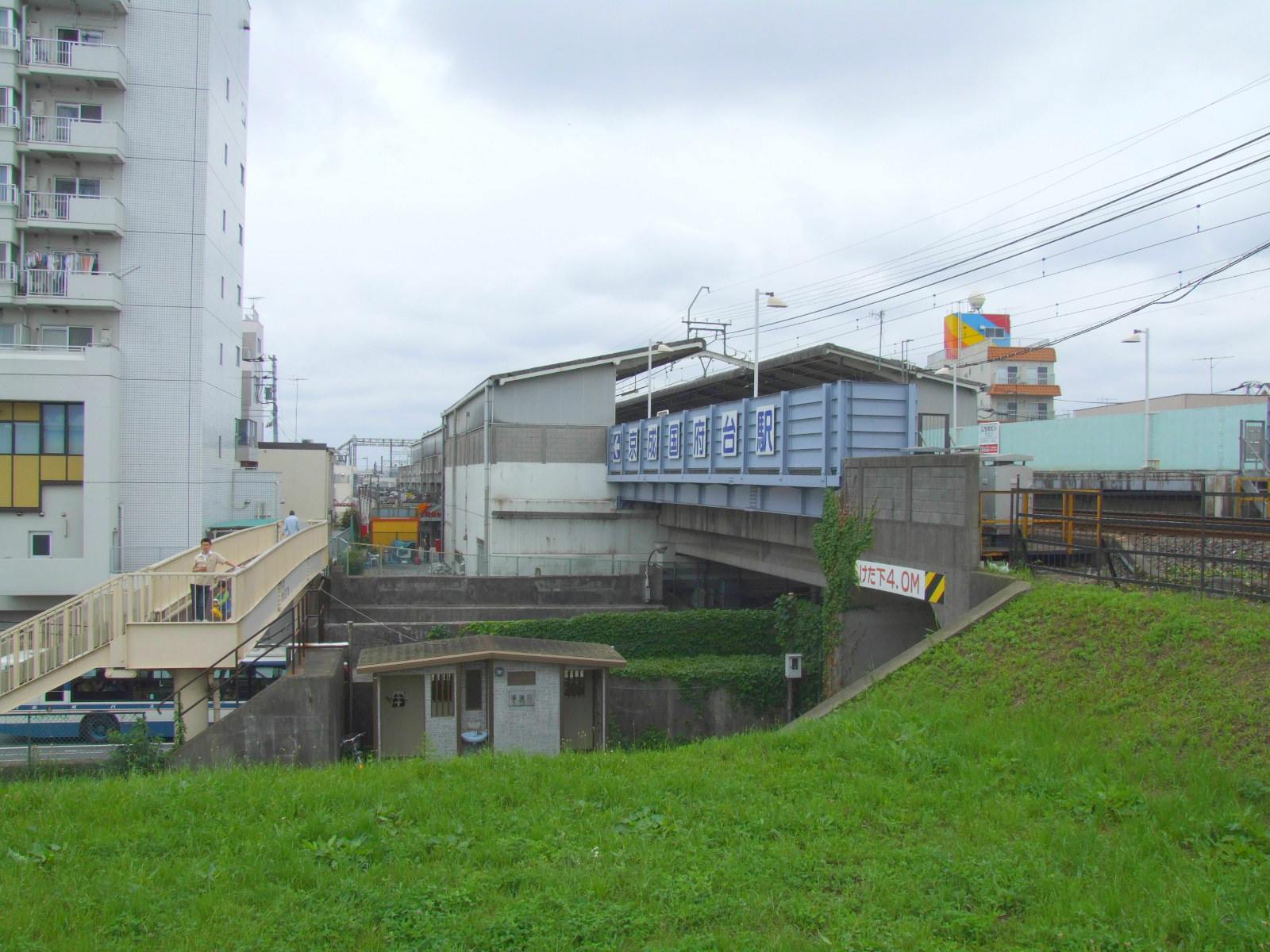 Kōnodai Station. Ichikawa, Chiba prefecture, Japan.